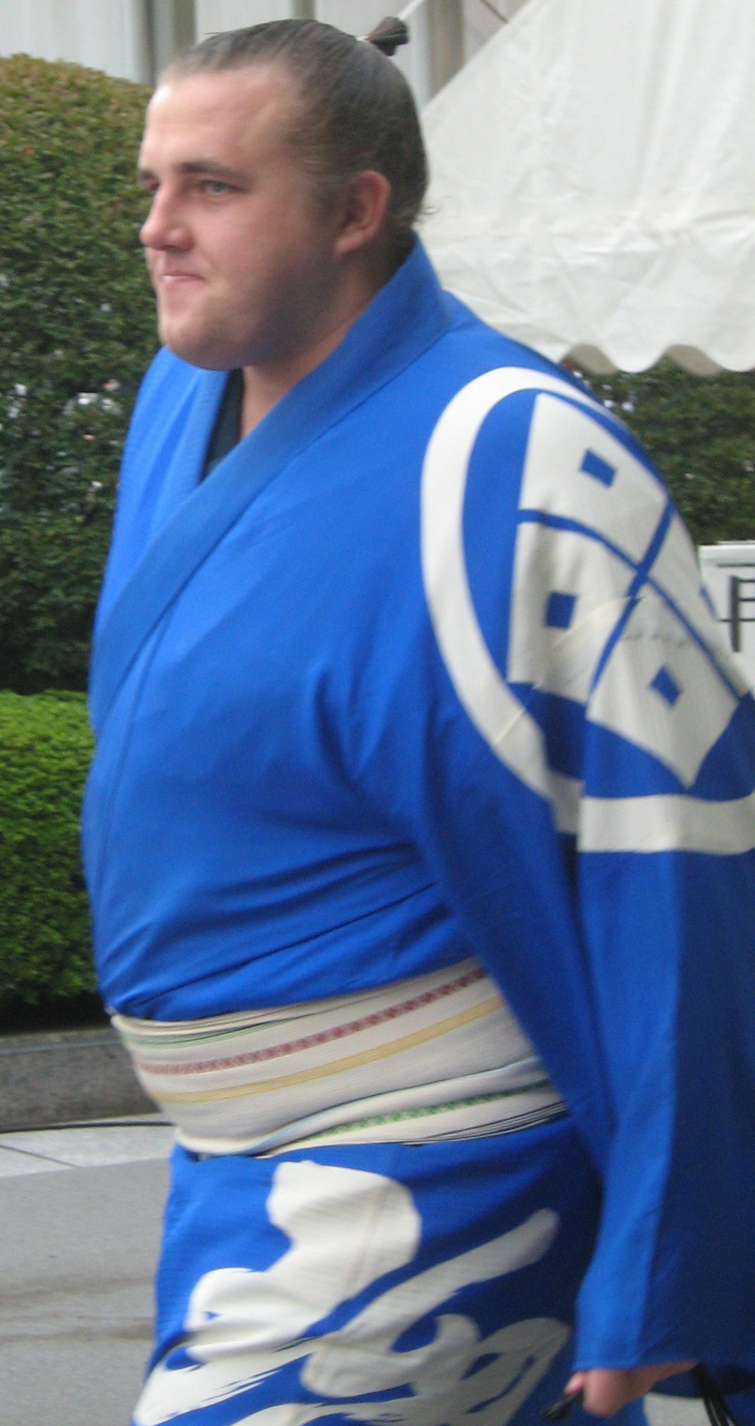 taken at 2008 Sept tournament